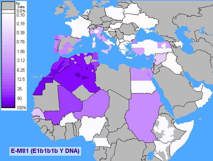 Distribution of Y haplotype EM-81 E1b1b1b in North Africa, West Asia and Europe. Data psuedocolored based on data in Table 1. from (Am J Hum Genet. 2004 May; 74(5): 1023–1034.) Regions with stripes indicate data given twice of a region but substantively different values. For albania, the colors indicate Calabrian Albanians or Albanians, For Israel the colors are either Ashkenazi or Sephardic Jews. The map from which the boundaries were derived was rebordered black, bodies of water were recolored blue. The image was painted in paintbrush.